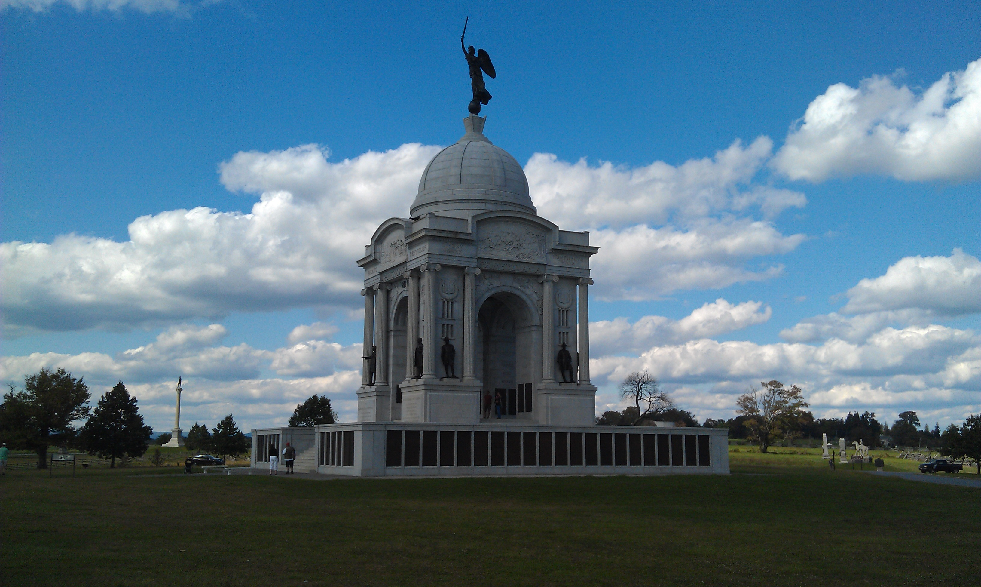 Located in Gettysburg, PA.